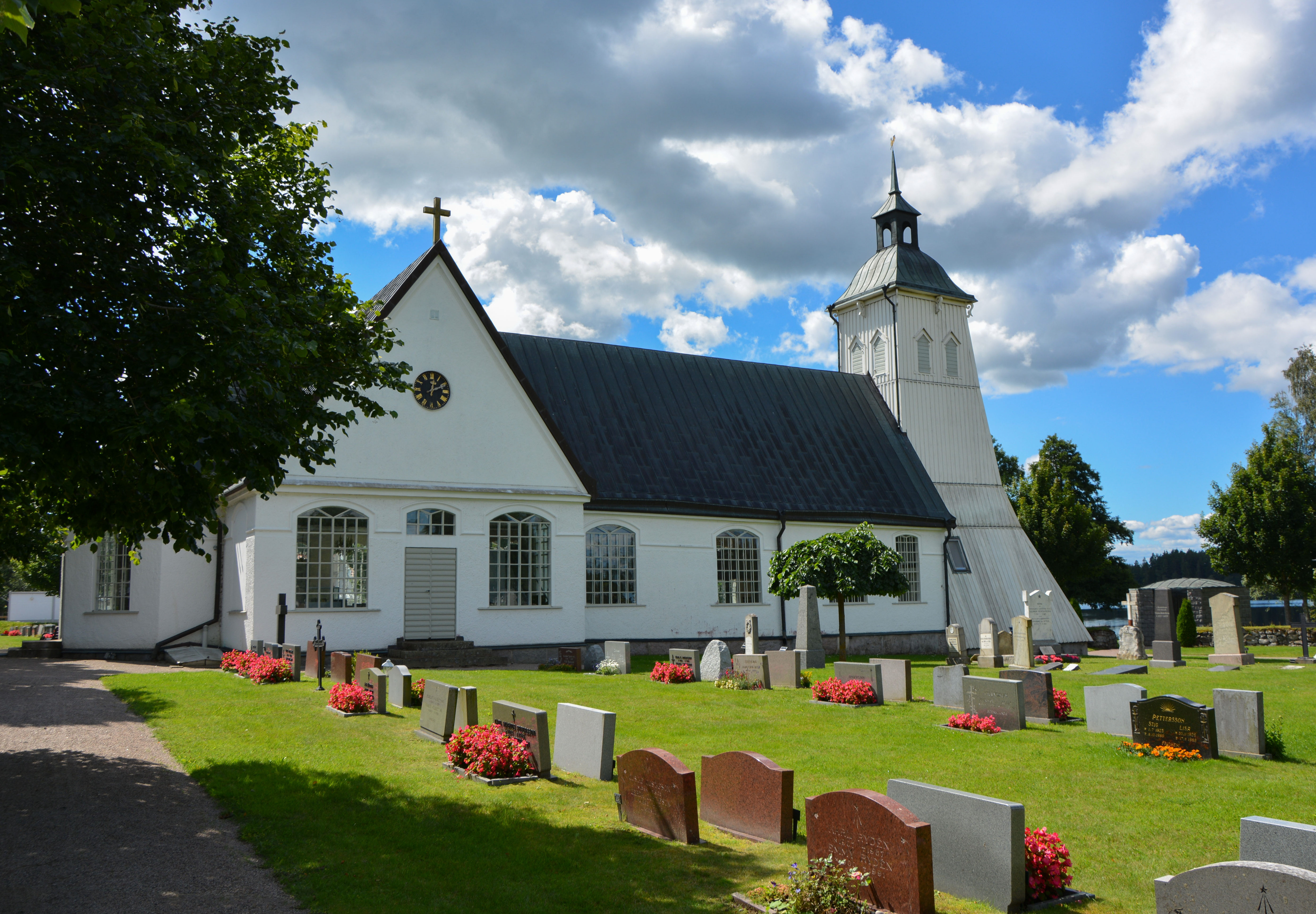 Tävelsås Church. The exterior of the church from the north.